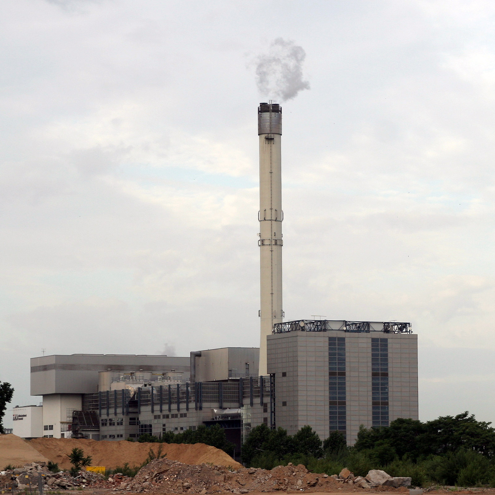 Incineration plant of Darmstadt (Hesse, Germany)